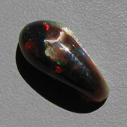 Black opal cabochon from Virgin Valley, Nevada